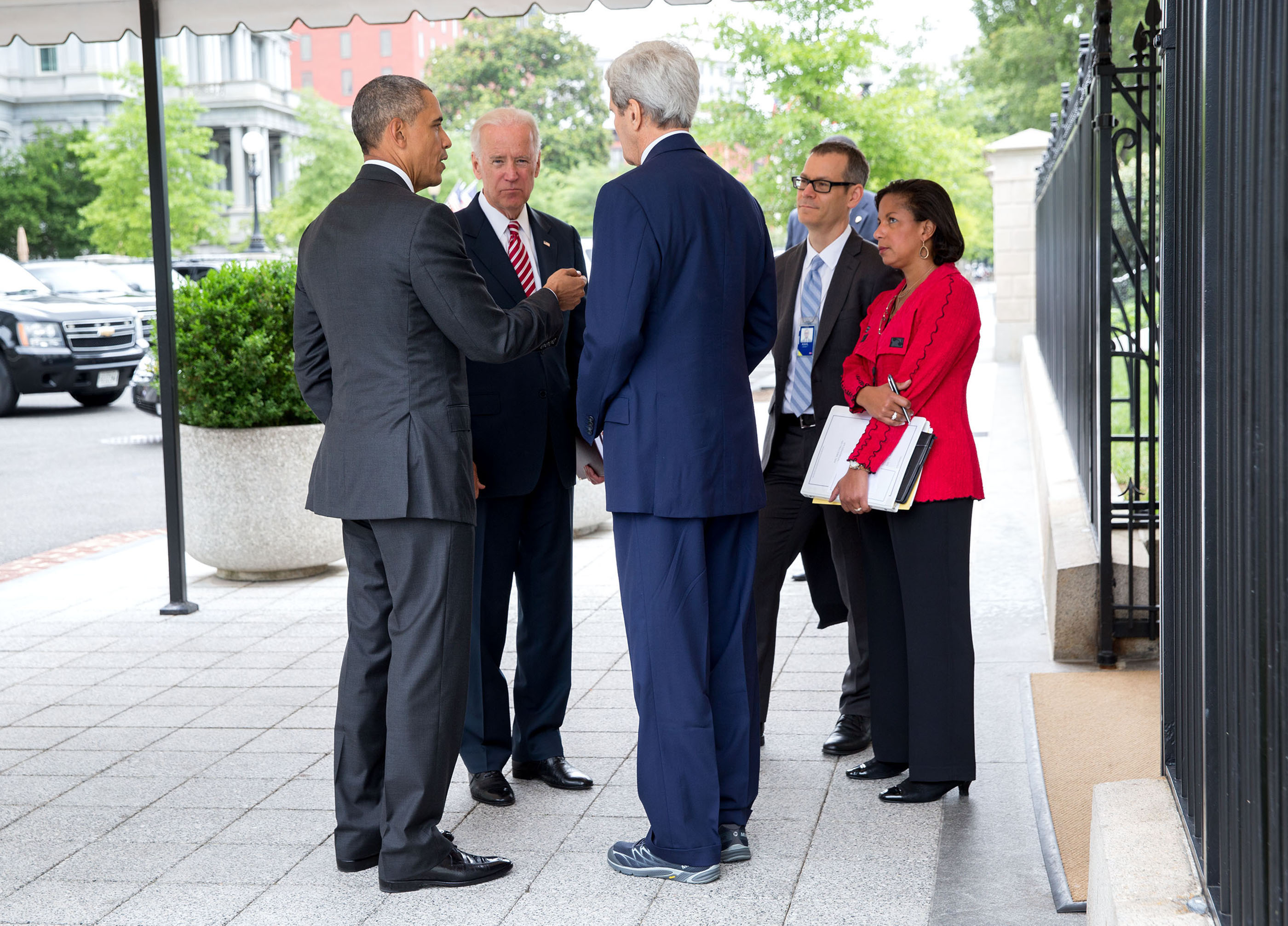 President Barack Obama talks with Vice President Joe Biden, Secretary of State John Kerry, Colin Kahl, National Security Advisor to the Vice President, and National Security Advisor Susan E. Rice outside the West Wing of the White House, July 15, 2015.